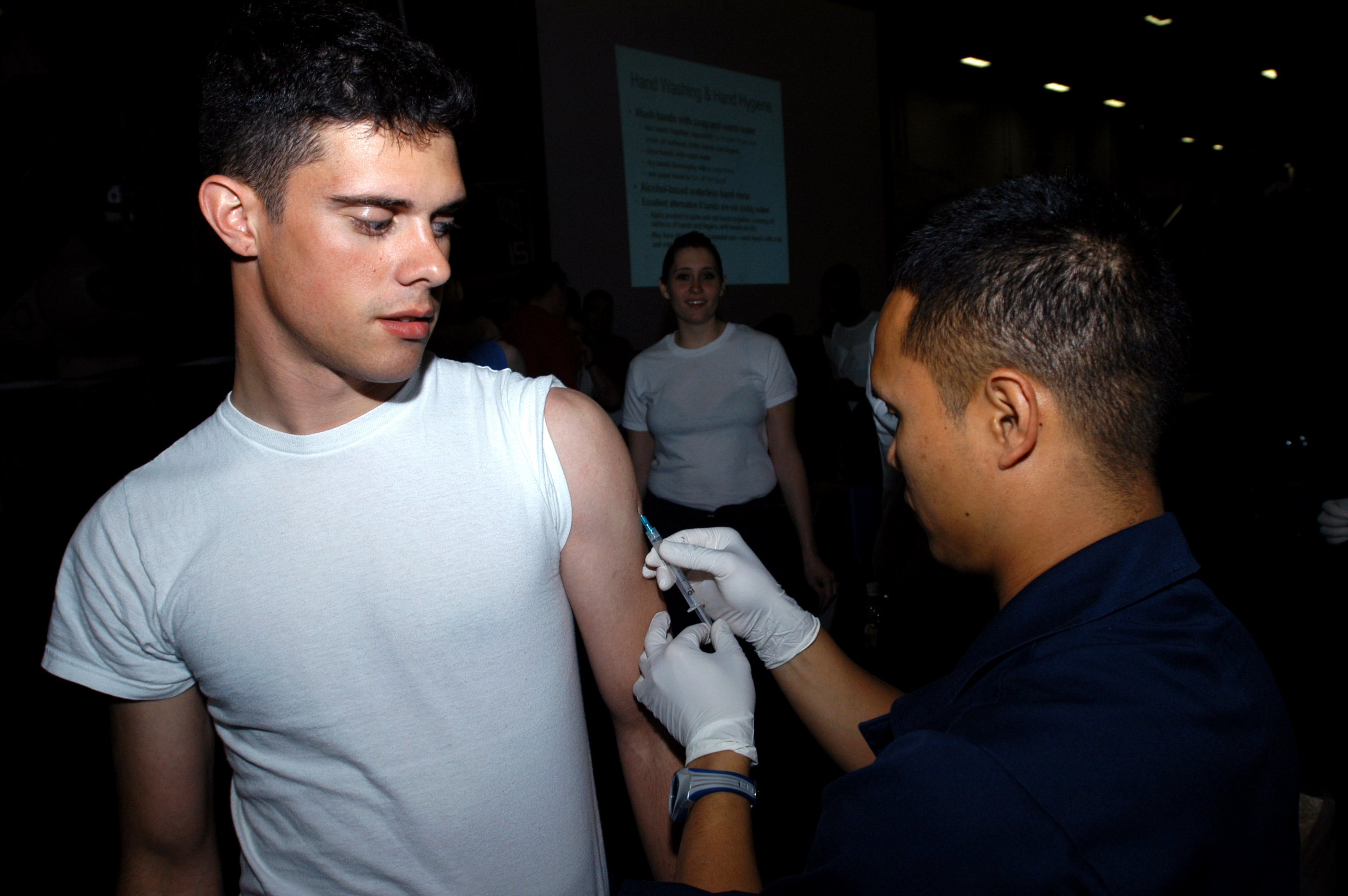 PACIFIC OCEAN (Apr. 5, 2007) - Airman Mark Hensel receives the anthrax vaccine aboard the nuclear-powered aircraft carrier USS Nimitz (CVN 68). USS Nimitz Carrier Strike Group (CSG) deployed April 2, 2007 in support of operations in U.S. Central Command area of responsibility. U.S. Navy photo by Mass Communication Specialist Seaman Matthew Haws (RELEASED)